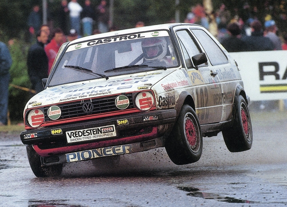 Austrian Rallycross driver Herbert Breiteneder pictured with his GpA VW Golf GTI 16V at the Eurocircuit at Valkenswaard in Holland, taken by myself. Scan of the April page of the poster calendar "Rallycross 1989", published by myself.